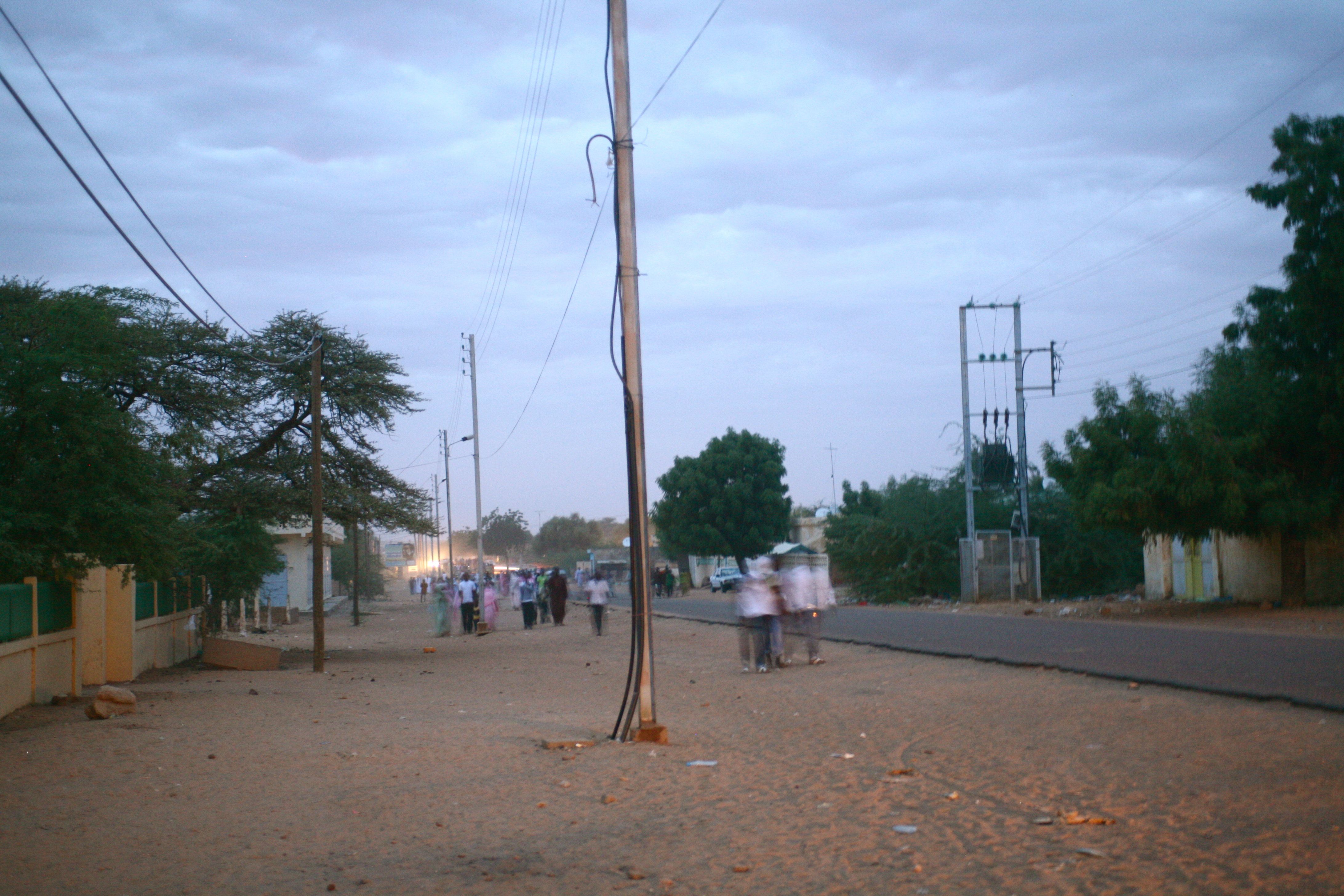 Street at dusk in Kaedi, Mauritania